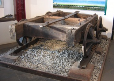 Wagon and track of the Bicslade Tramroad, in the Forest of Dean, at the Narrow Gauge Railway Museum